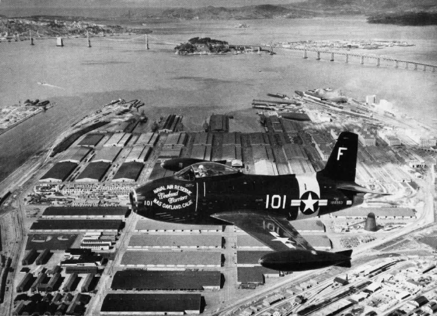 A U.S. Navy North American FJ-1 Fury of the Oakland Naval Air Reserve flying over Oakland, California (USA), ca. 1950.